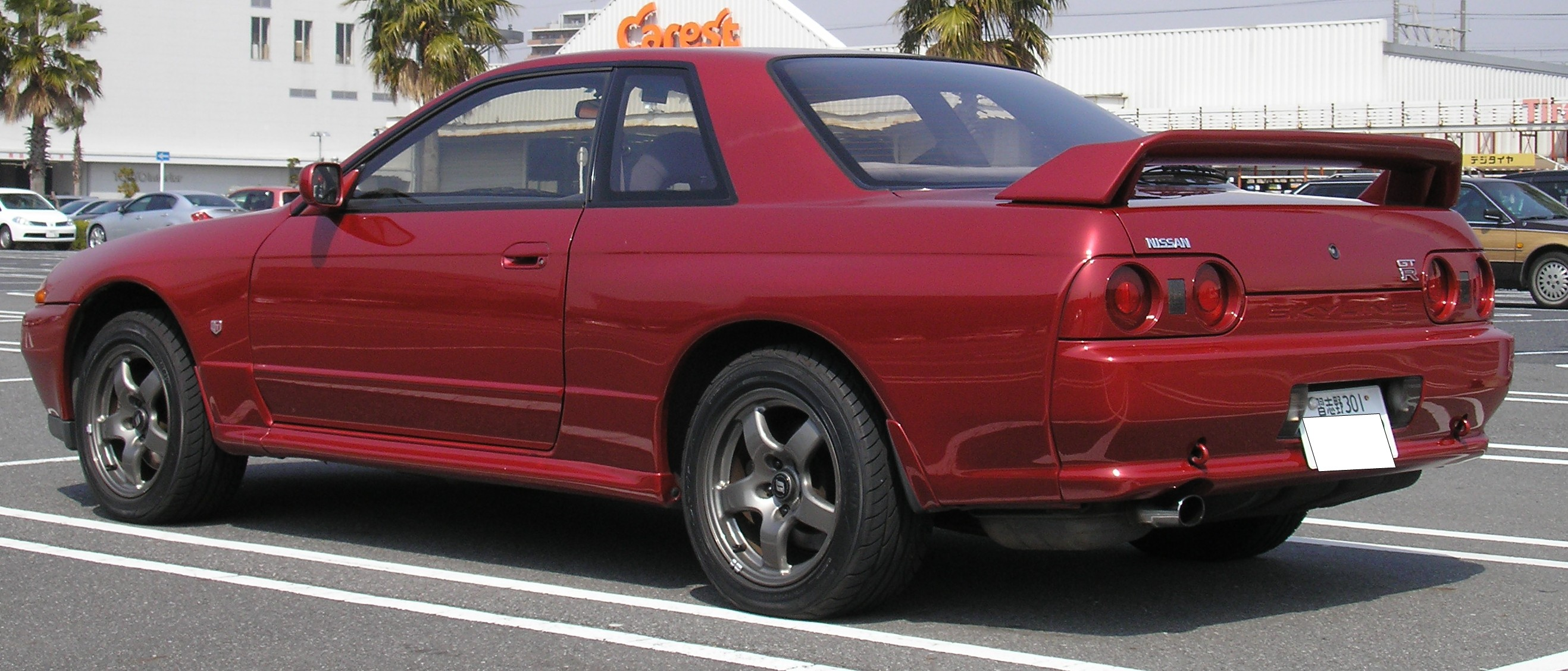 Nissan Skyline R32 GT-R Coupé, photographed at Nissan Carest in Chiba, Japan